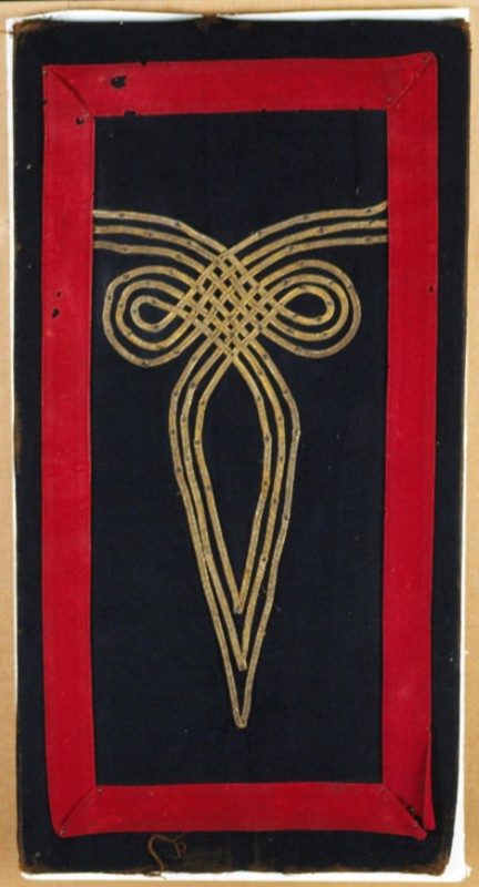 Military stripes ripped off from Captain Alfred Dreyfus on the day of his degradation ceremony, January 5, 1895. They were picted up by police commissioner Charles Péchard and given to Alfred Dreyfus's family, then later donated to the Musée d'art et d'histoire du Judaïsme as part of the "Fonds Dreyfus"